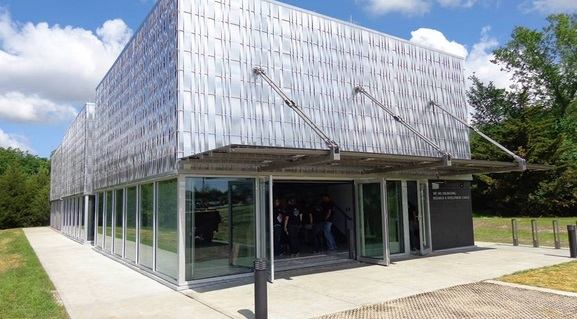 Studio 804, the home of the KU Ecohawks